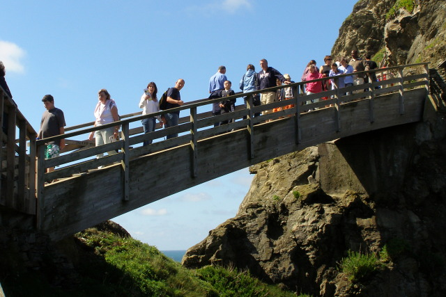 Footbridge to the Island, Tintagel Castle This wooden bridge leads across from the mainland (left) to the Island (right), providing access to the castle ruins on the island for paying customers of English Heritage. There are remains of stone steps on the right just beyond the bridge, presumably these followed the neck of rock between the mainland and island but have been destroyed by marine erosion.